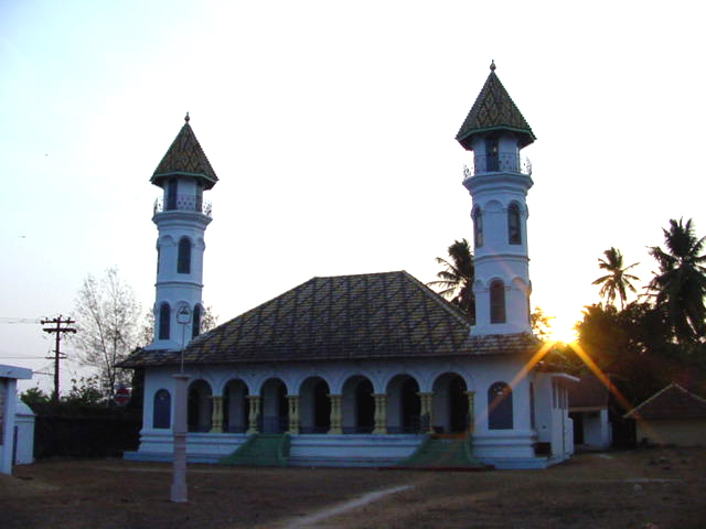 Moulana Masjid, Kannur the Mosque with the Jaram (body) of Shake Moulana Mohammed.